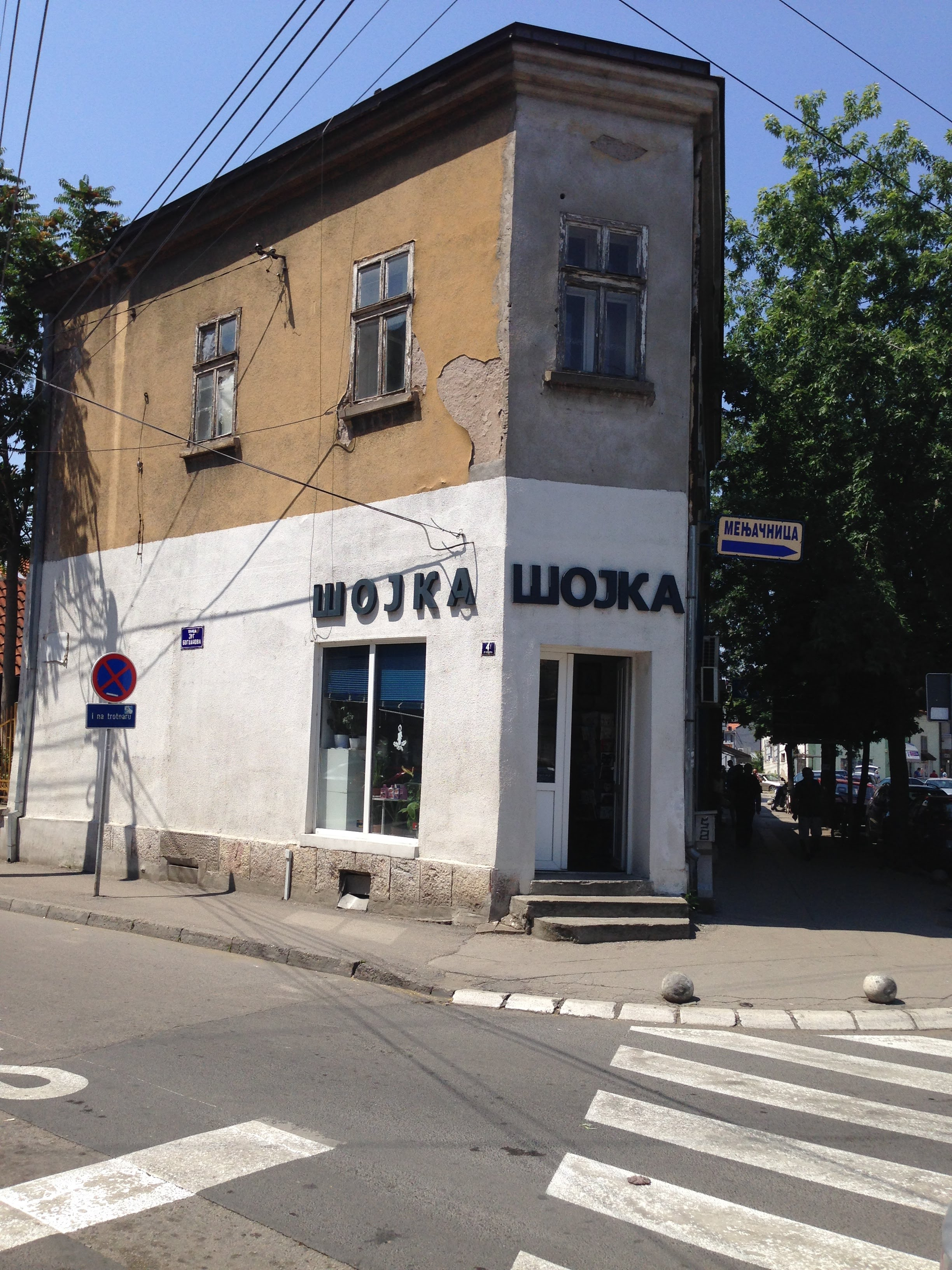 History of candle making in Niš, Serbia